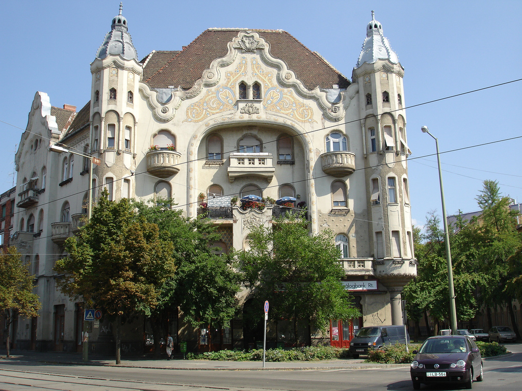 Raichle J. Ferenc arhitect 1912-1913